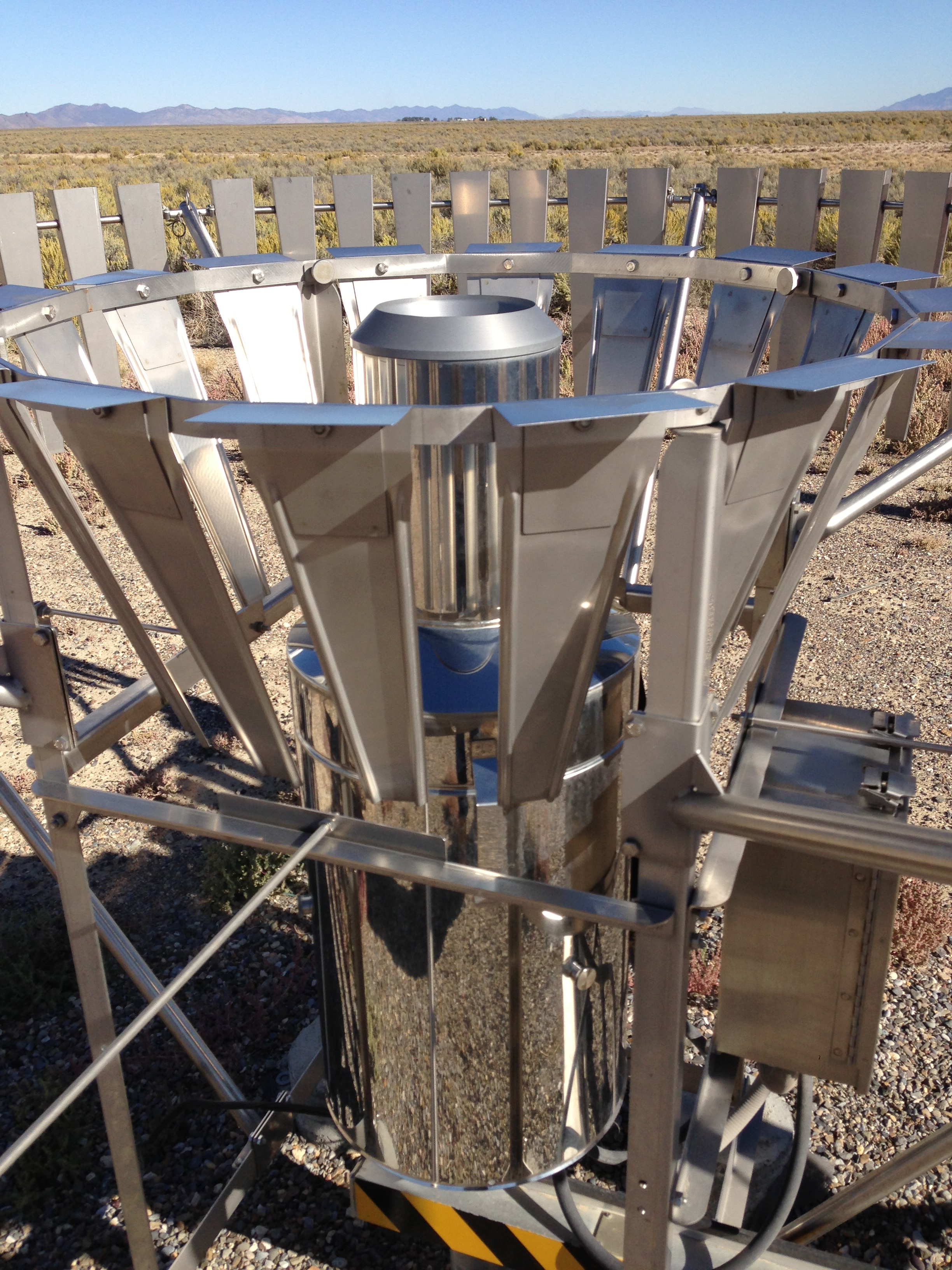 ASOS AWPAG precipitation gauge at Eureka Airport, Nevada